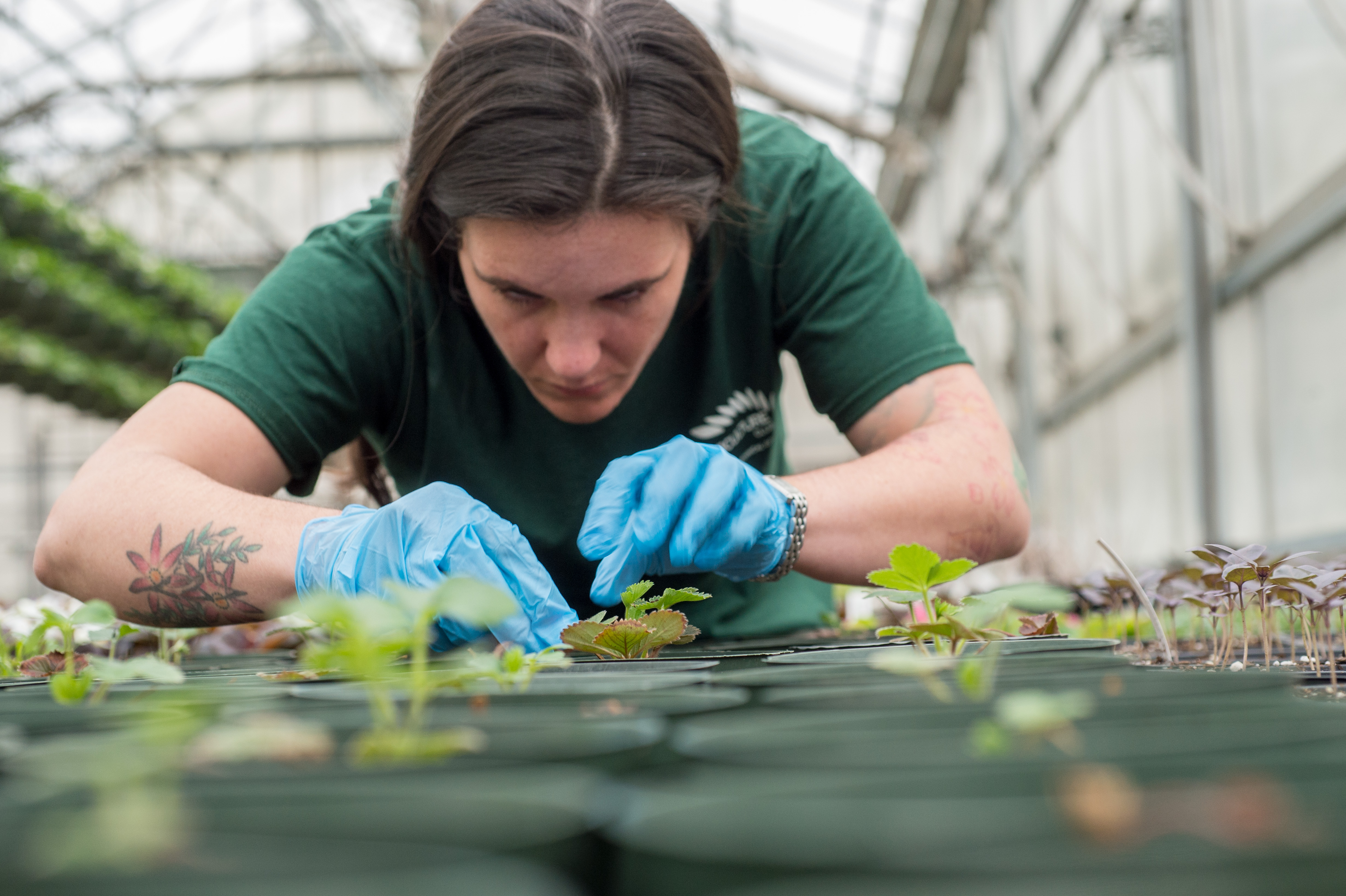 Horticulture student Amy Boul, cares for the edible plants at Gwinnett Technical College in Lawrenceville, GA, on Thursday, March 19, 2015. The plants are used in the culinary program meals services at campus dining rooms are some of the ways that a diverse student body participate in career studies. The U.S. Department of Agriculture (USDA) and Department of Labor (DOL) grantees for the Supplemental Nutrition Assistance Program (SNAP) and Employment and Training (E&T) pilots are provided by the 2014 Farm Bill to help participants gain and retain employment that leads to self-sufficiency. Obtaining a quality education from institutions such as this one is a key element to success. USDA photo by Lance Cheung.